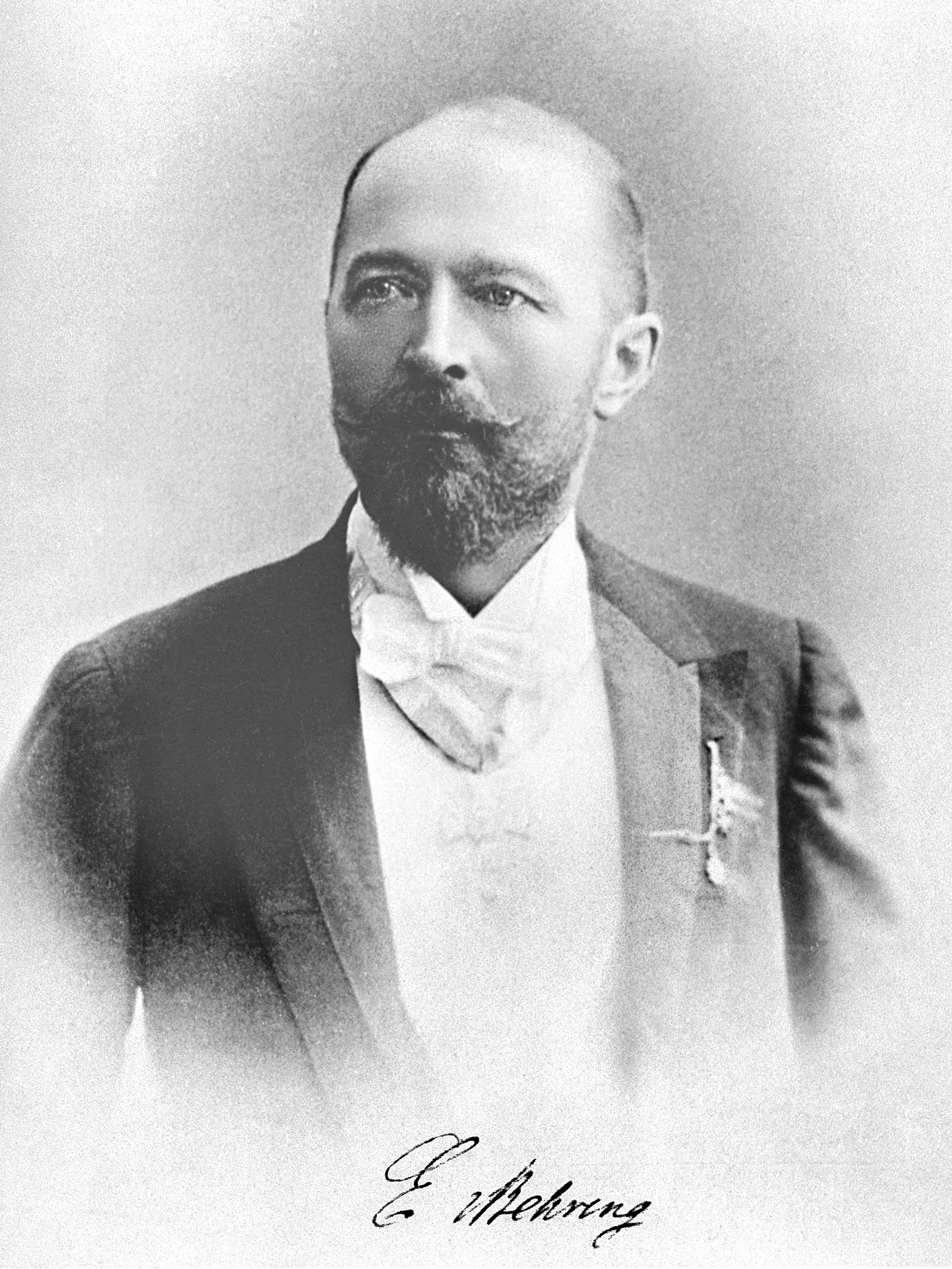 Emil Behring (1854-1917) at his wedding 1896 at the age of 42 years.